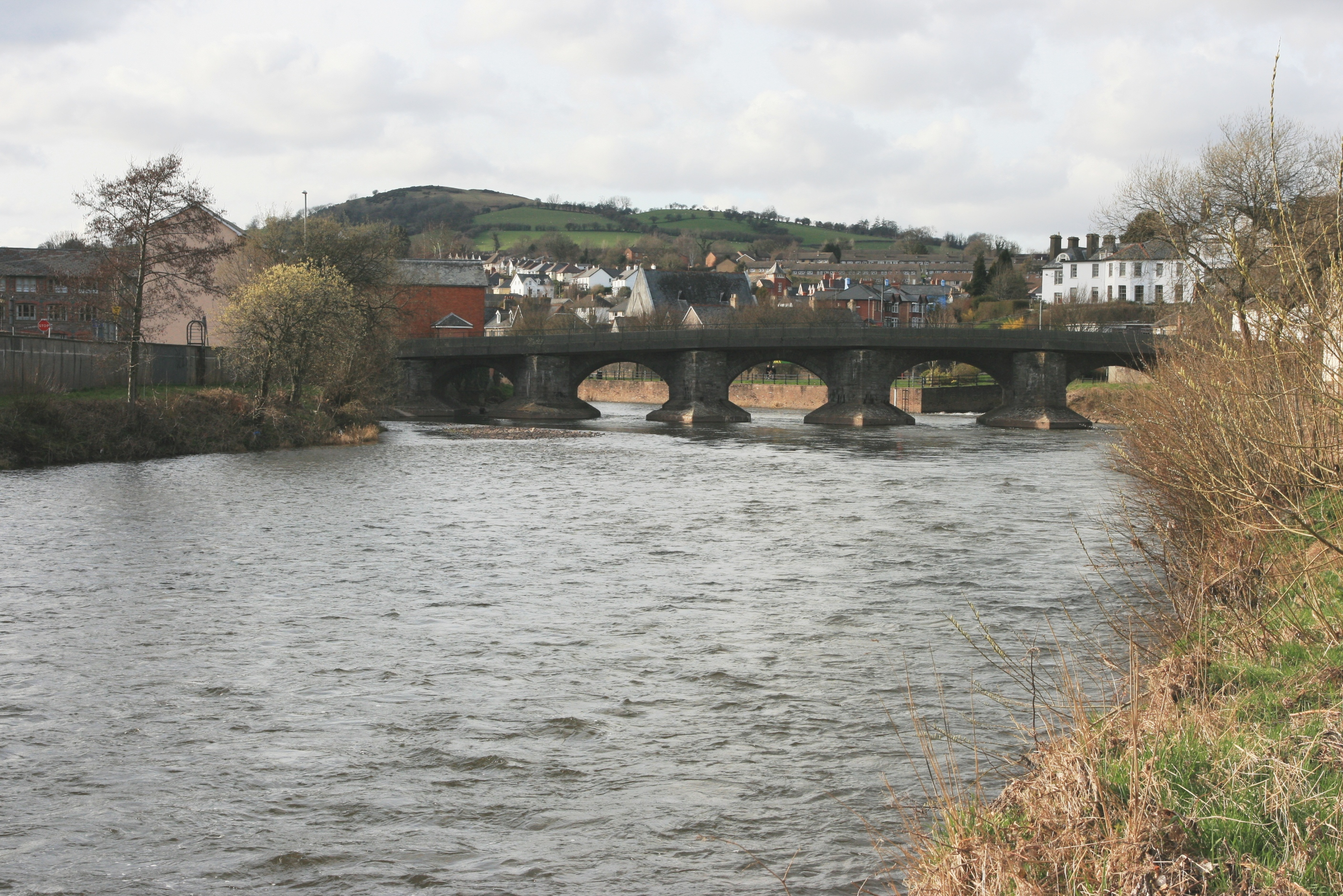 River Usk and bridge, Brecon